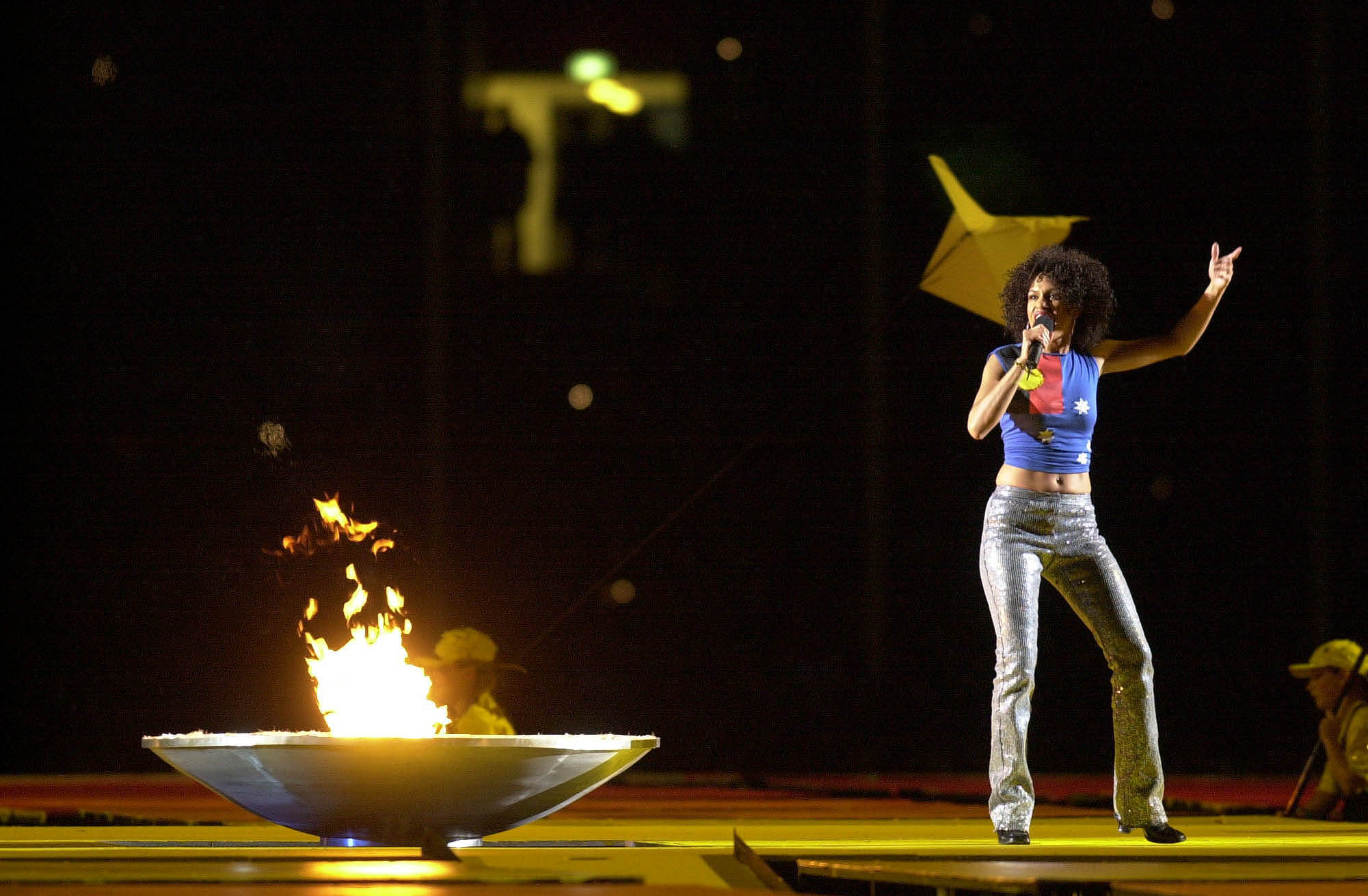 Australian aboriginal singer Christine Anu performs at the 2000 Sydney Paralympic Games Opening Ceremony